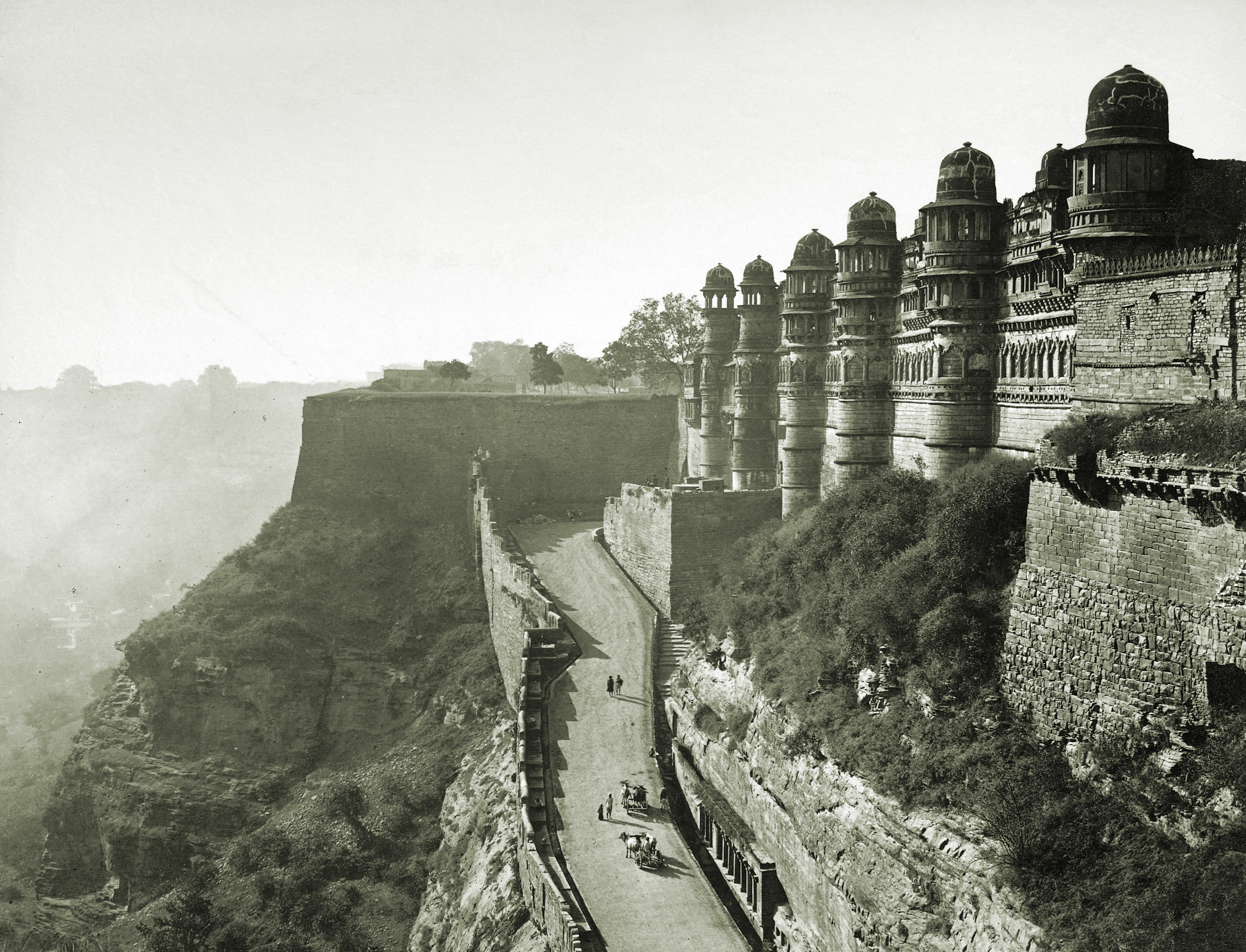 Main entrance & Man Mandir, Gwalior Fort